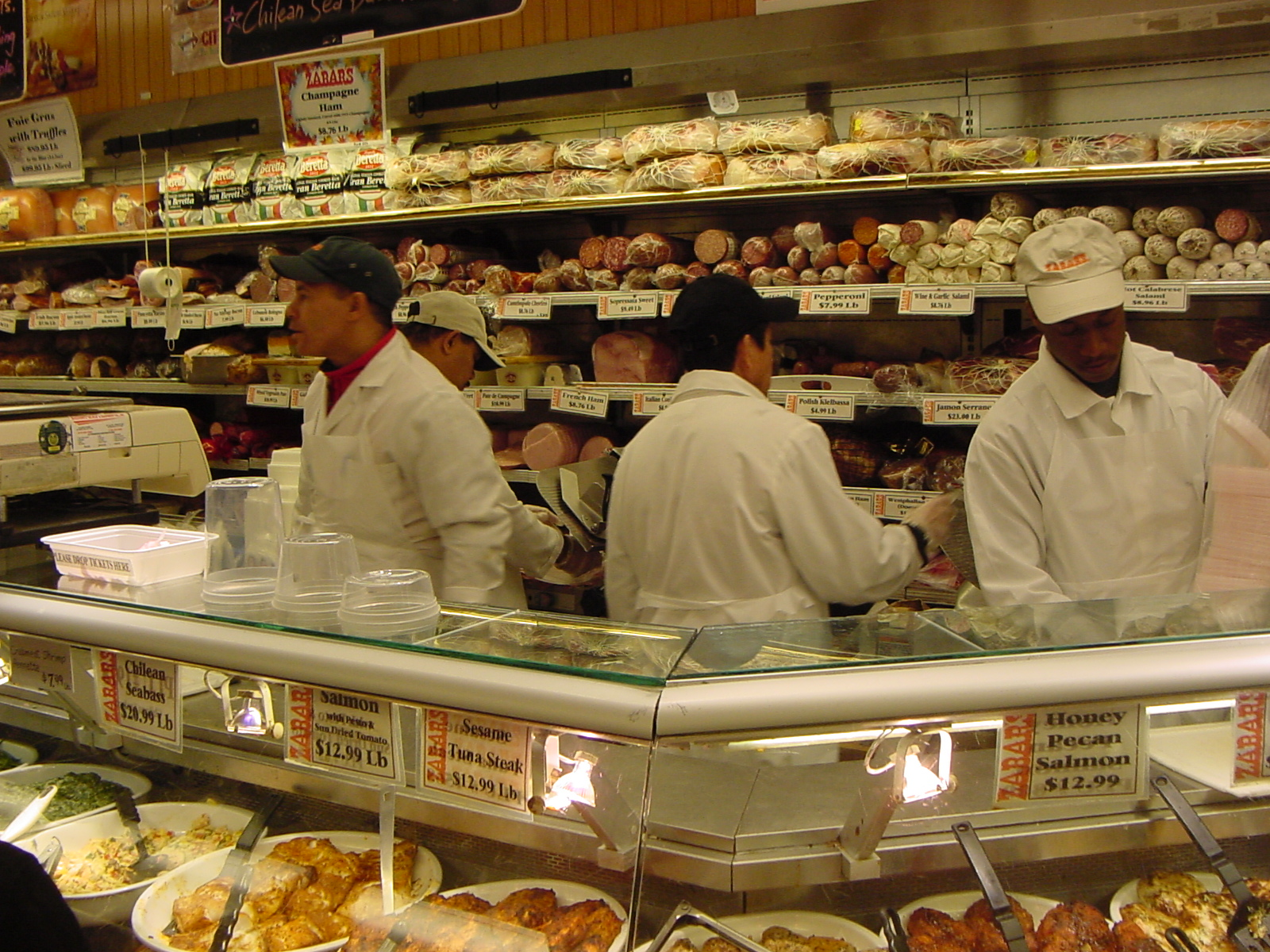 Zabar's Meat Dept.